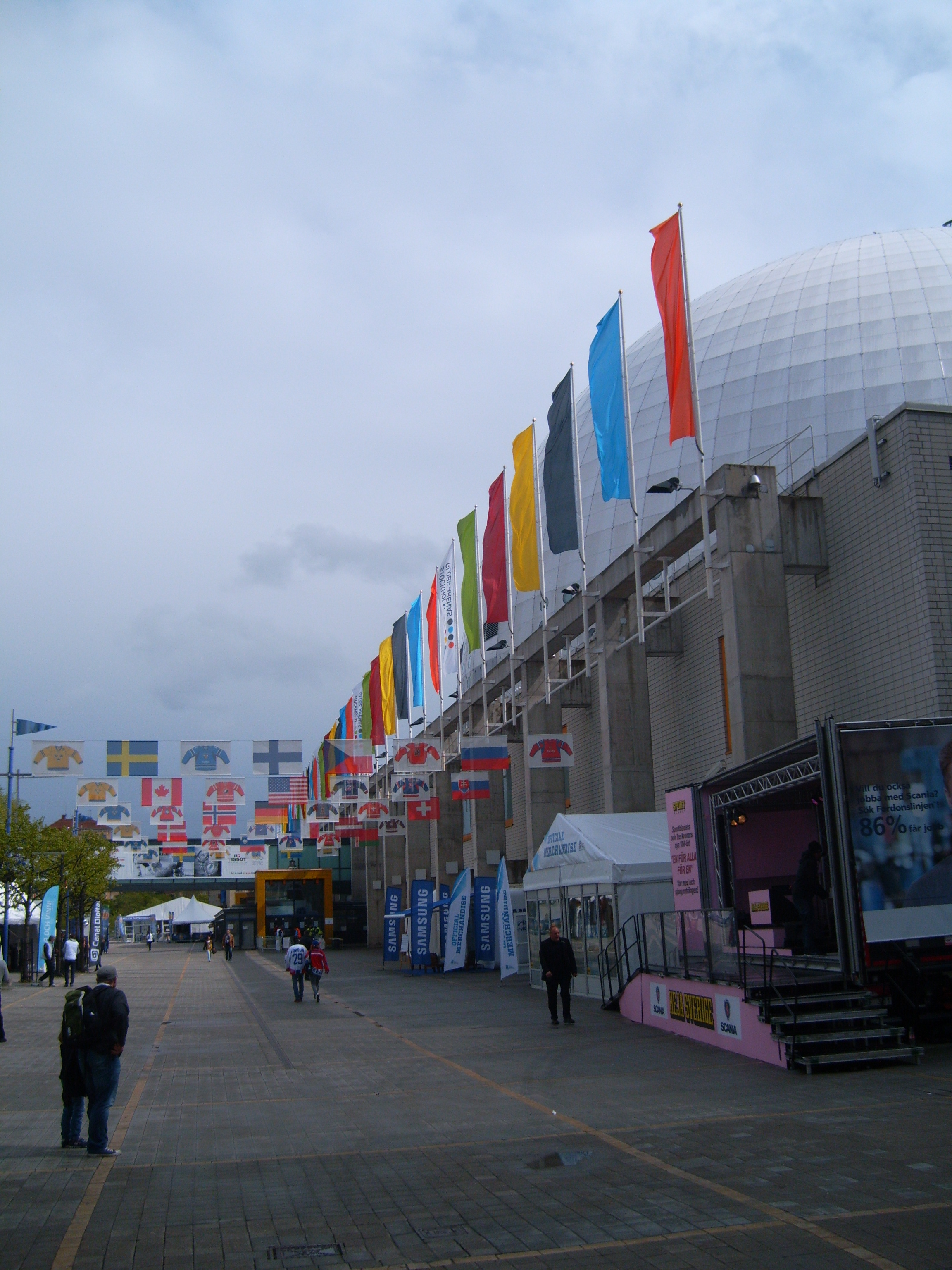 2013 IIHF World Championship at Ericsson Globe.